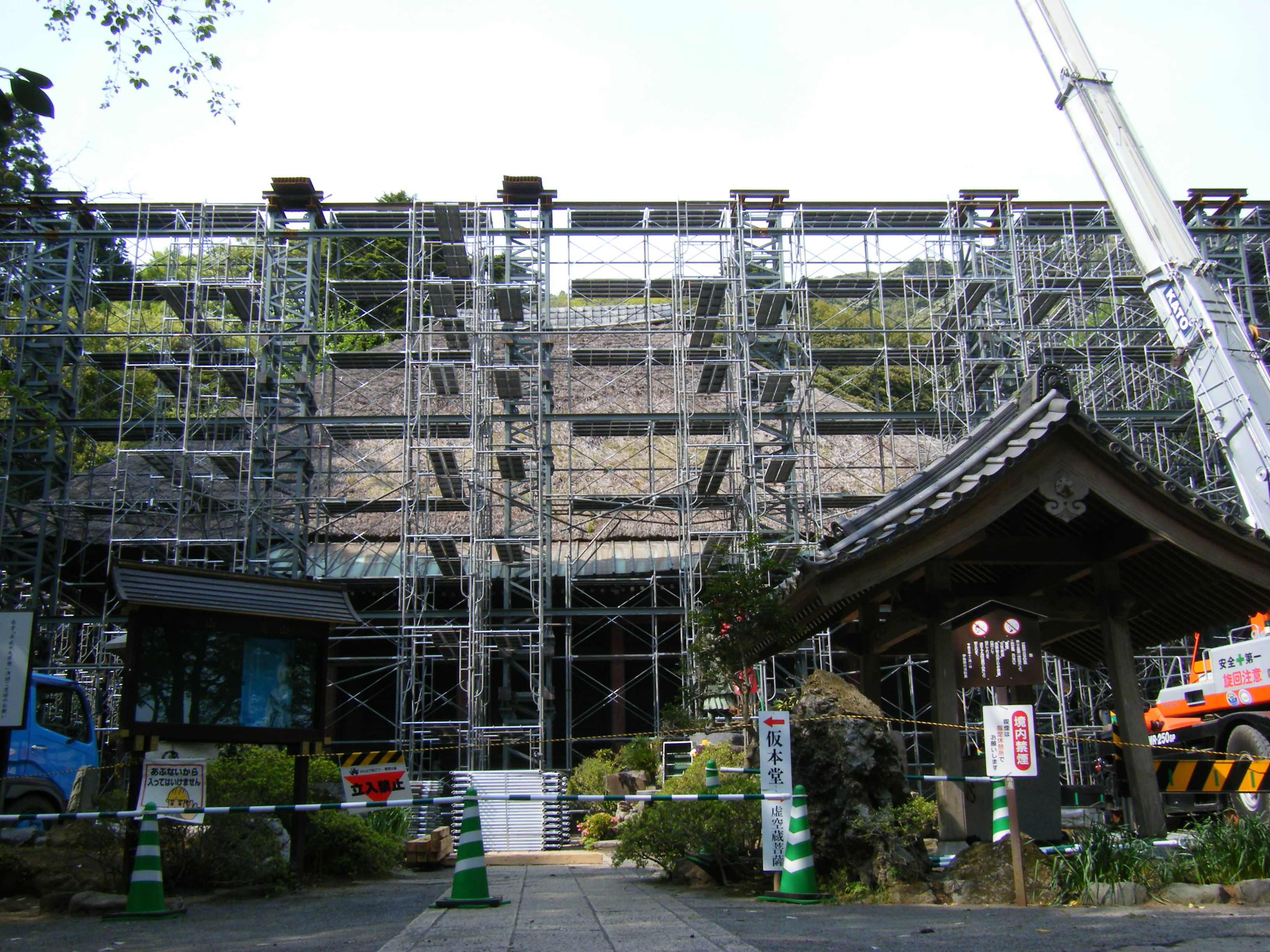 日向薬師（日向山霊山寺）の改修工事の様子。 Aspect of the repair work of Ryosenji (Hinata-Yakushi).